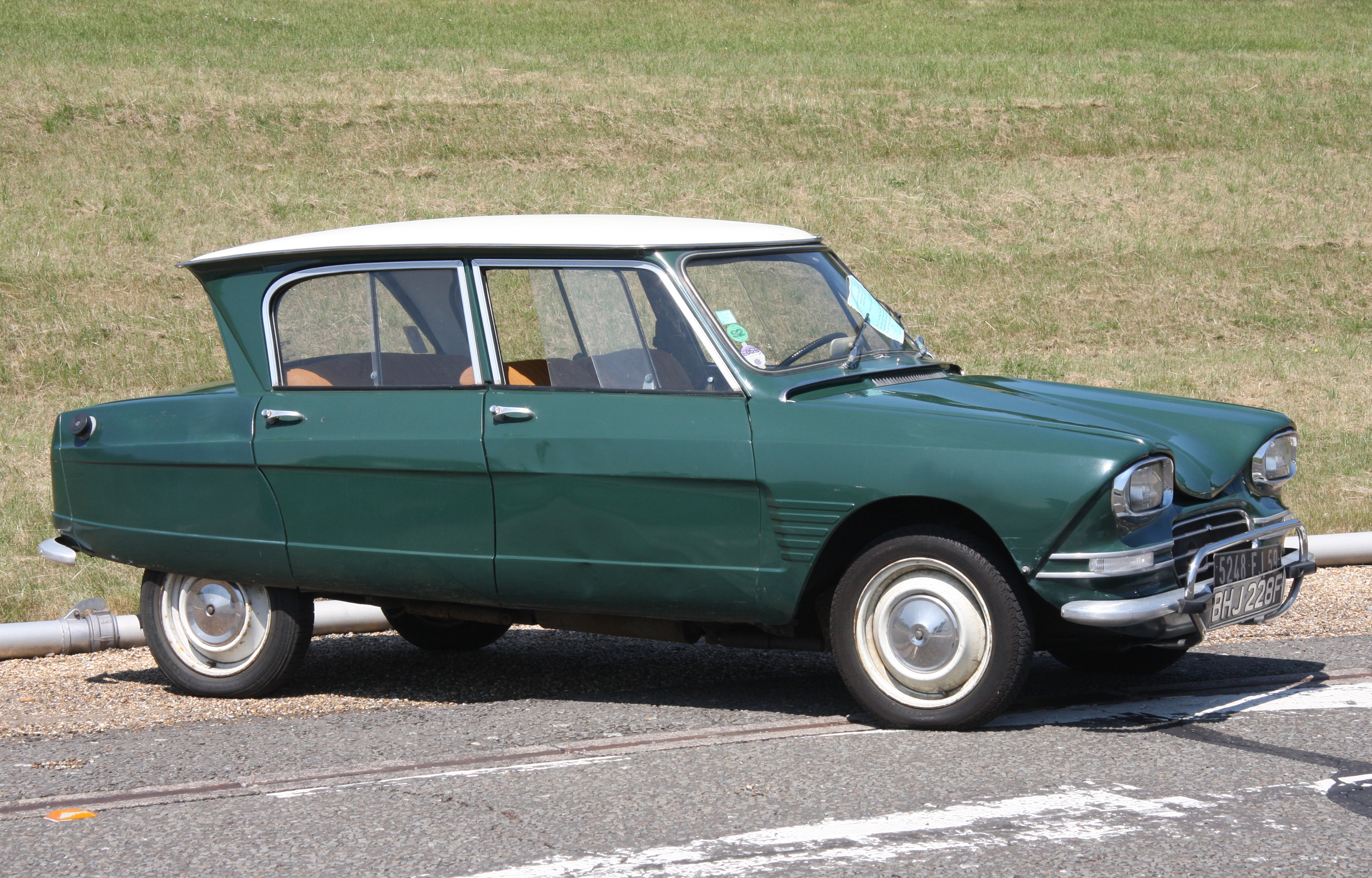 1968 Citroën Ami 6, 602cc